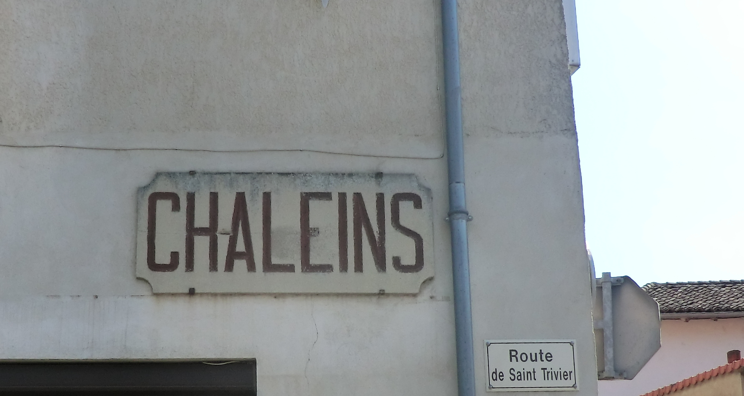 Image of Chaleins.